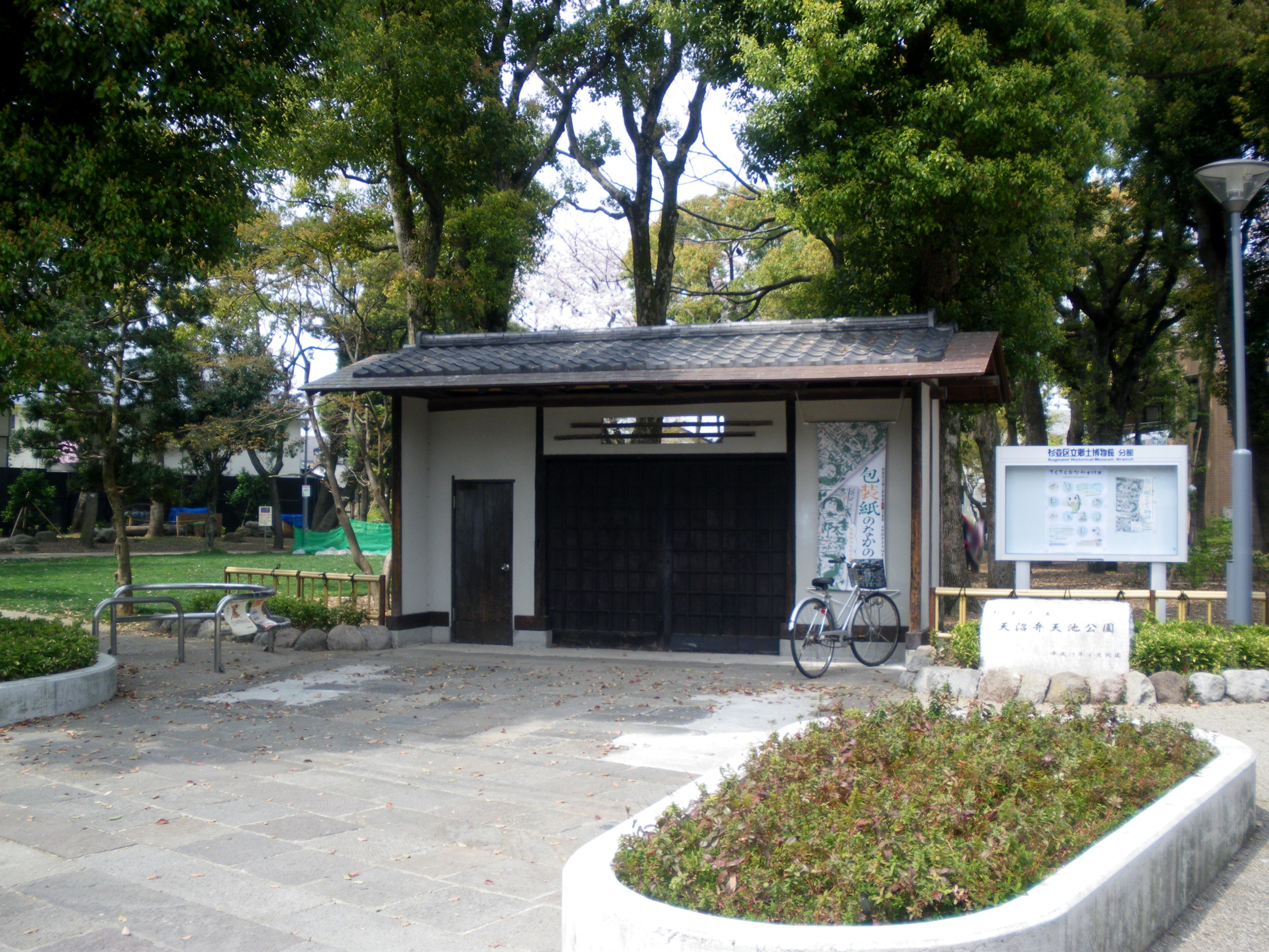 Amanumabentenike Park(Suginami,Tokyo)